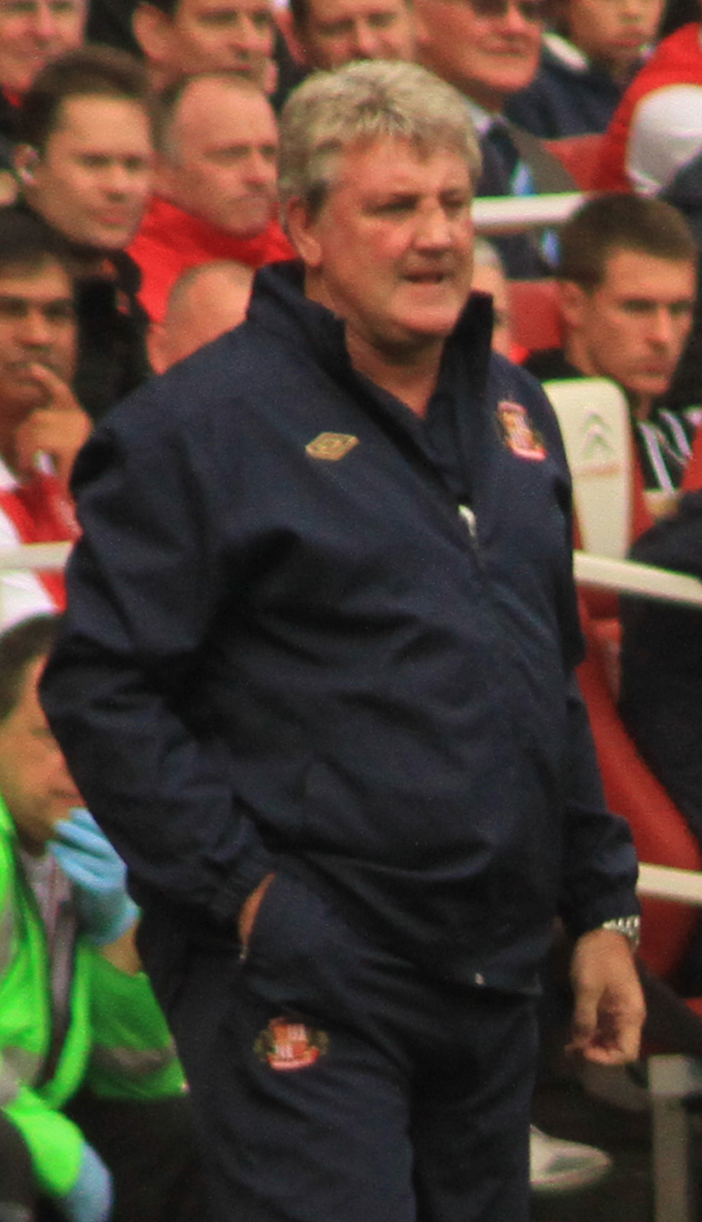 Steve Bruce during a match between Arsenal and Sunderland on 17-10-2011.